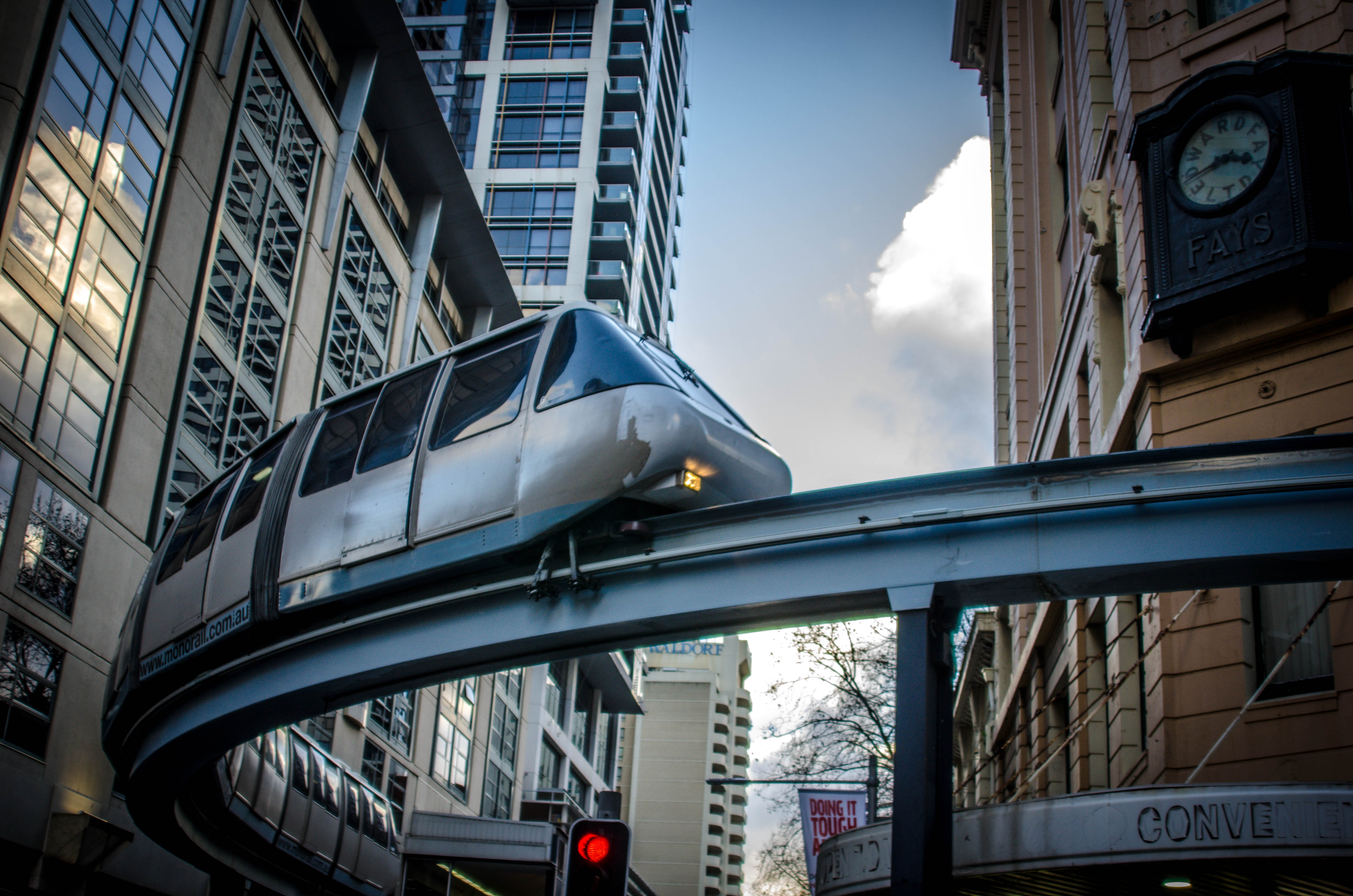 Metro Monorail Pitt Street